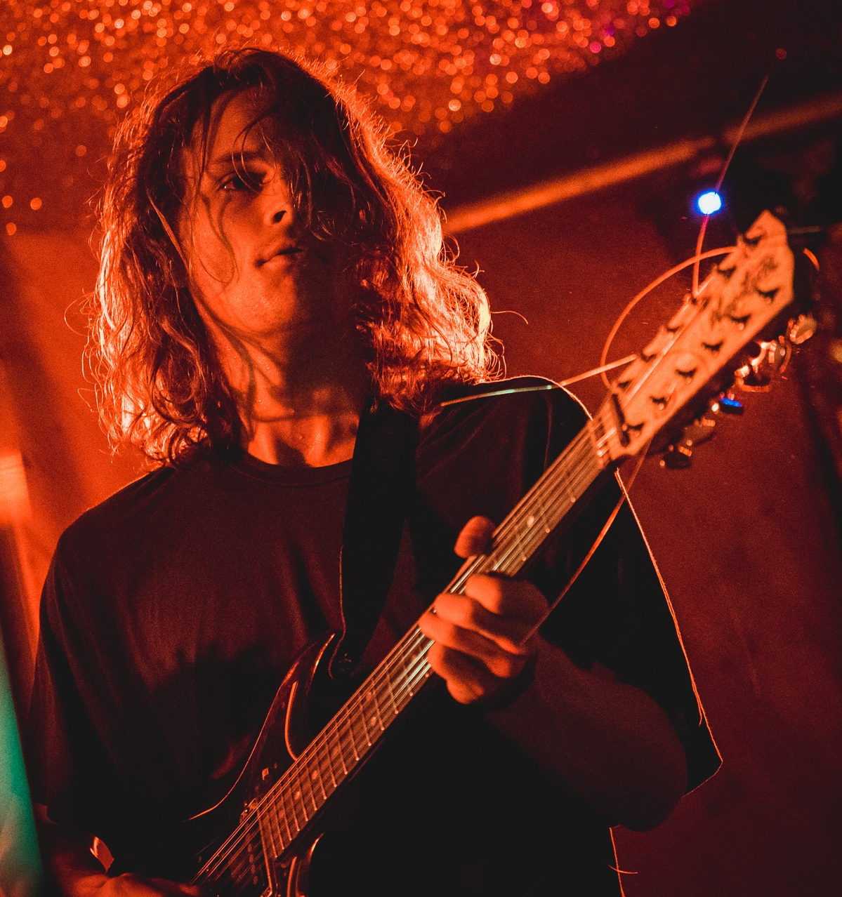 Stu Mackenzie of King Gizzard and the Lizard Wizard at the Moth Club